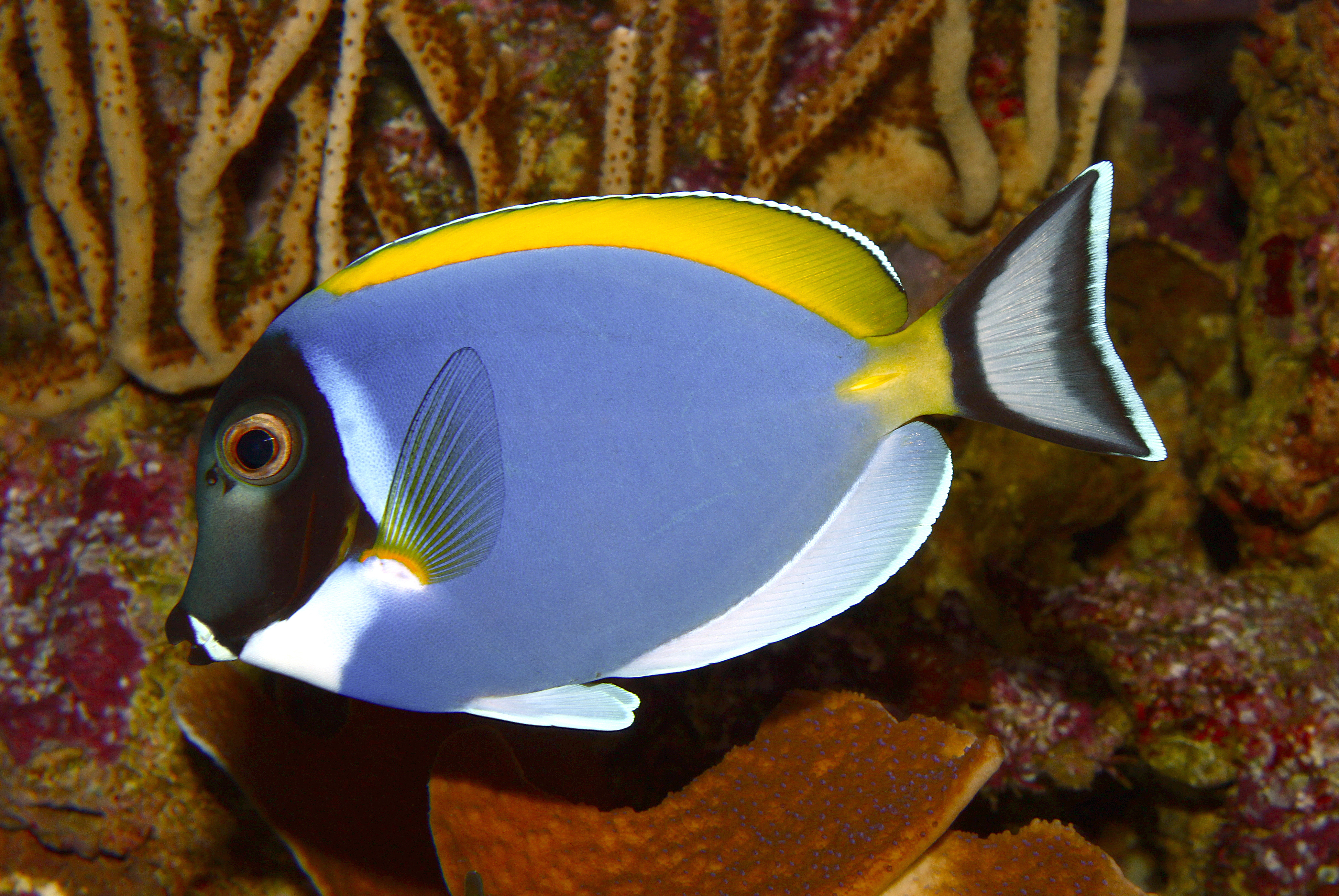 Acanthurus leucosternon, Acanthuridae, Powder Blue Tang; Staatliches Museum für Naturkunde Karlsruhe, Germany.